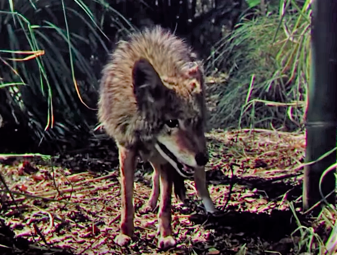 Tabaqui the jackal in Jungle Book - cropped screenshot